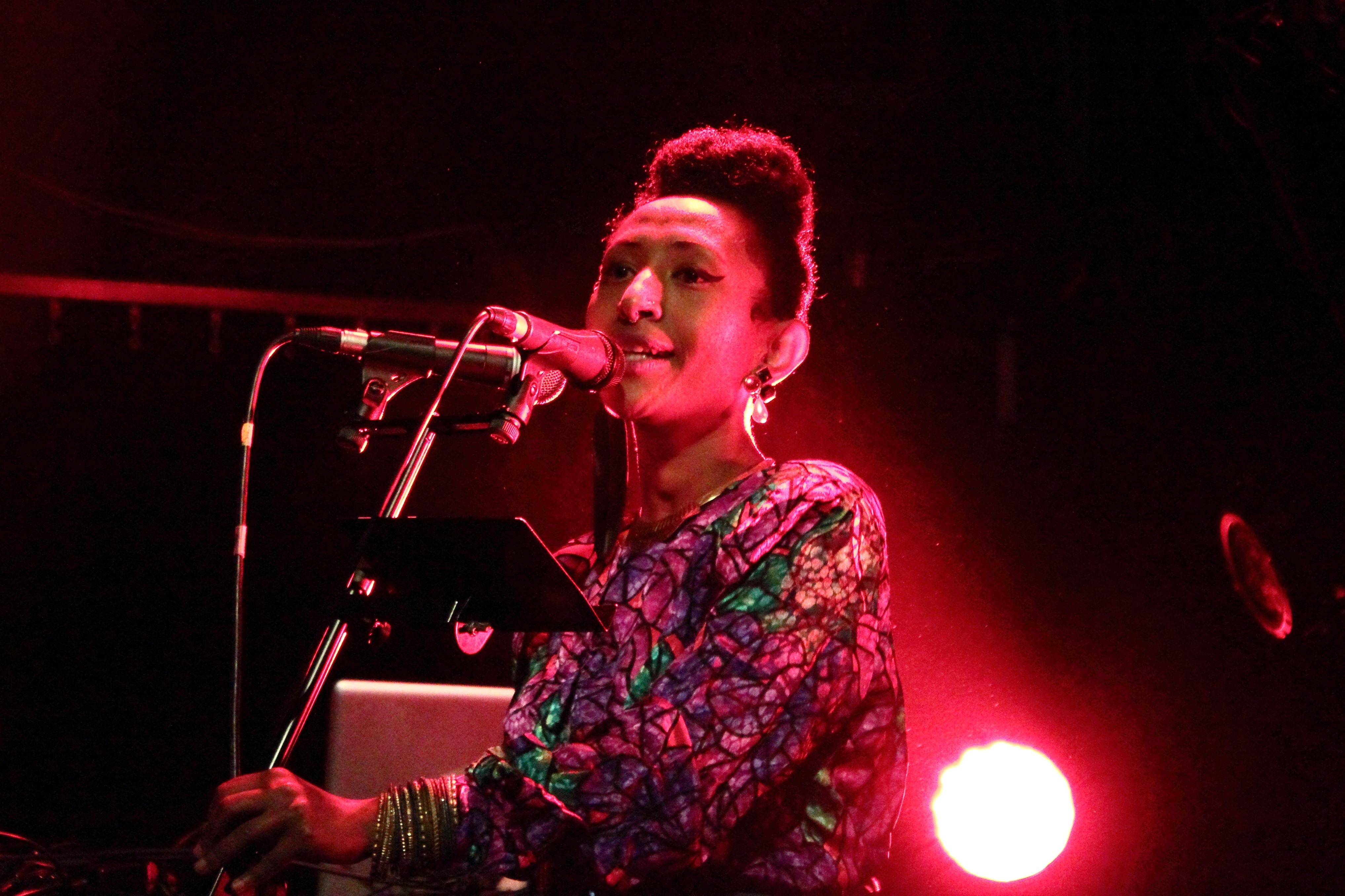 Concert de Debruit et Alsarah pour le festival Less Playboy is More Cowboy #5 au Confort Moderne - Poitiers, mai 2014. Flickr Tags: Confort Moderne Poitiers Festival less playboy is more cowboy Musique Music Scene Stage Live Concert Show Afro beat World music Debruit Alsarah. from Flickr album "Le Confort Moderne" by Xi WEG from Poitiers, France